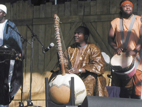 I took this photo myself and license it to public domain. It is also on my web site at